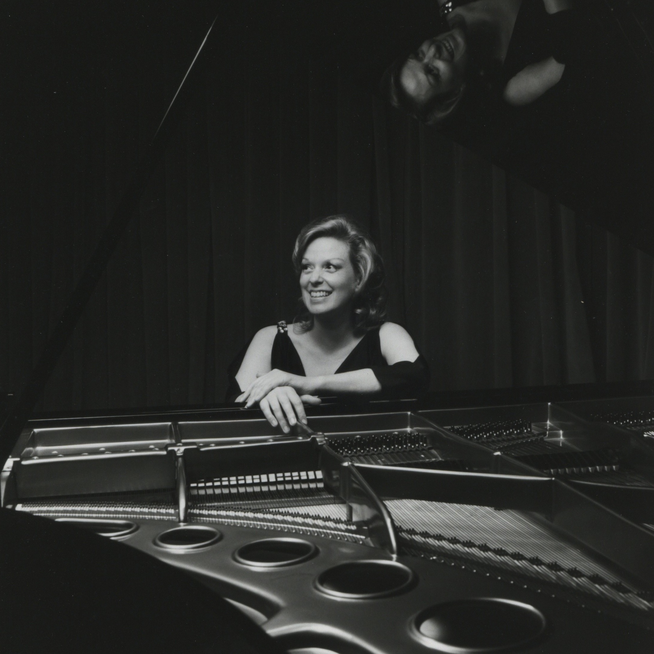 This is a photo of Carol Rosenberger, Classical Pianist.